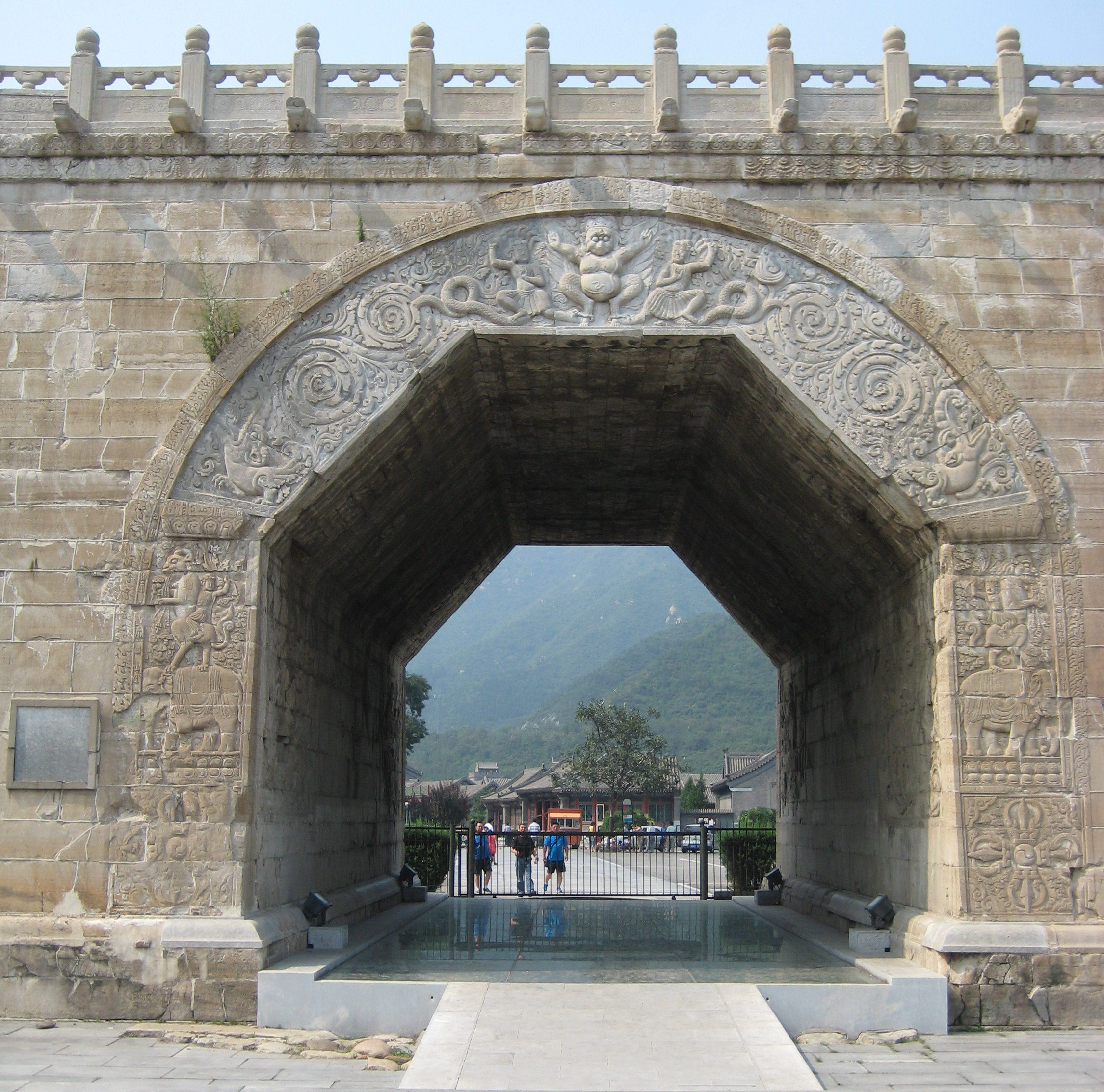 South arch of the Cloud Platform at Juyongguan (居庸關雲台), Beijing China. Built 1342.